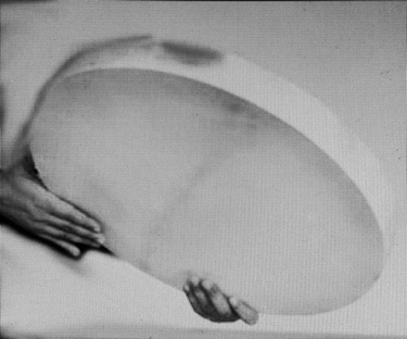 آلة إيقاعية تسمى الطار.